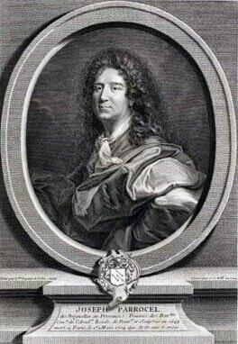 Joseph Parrocel (1646-1704), French Baroque painter engraving attributed to Johan Georg Wille